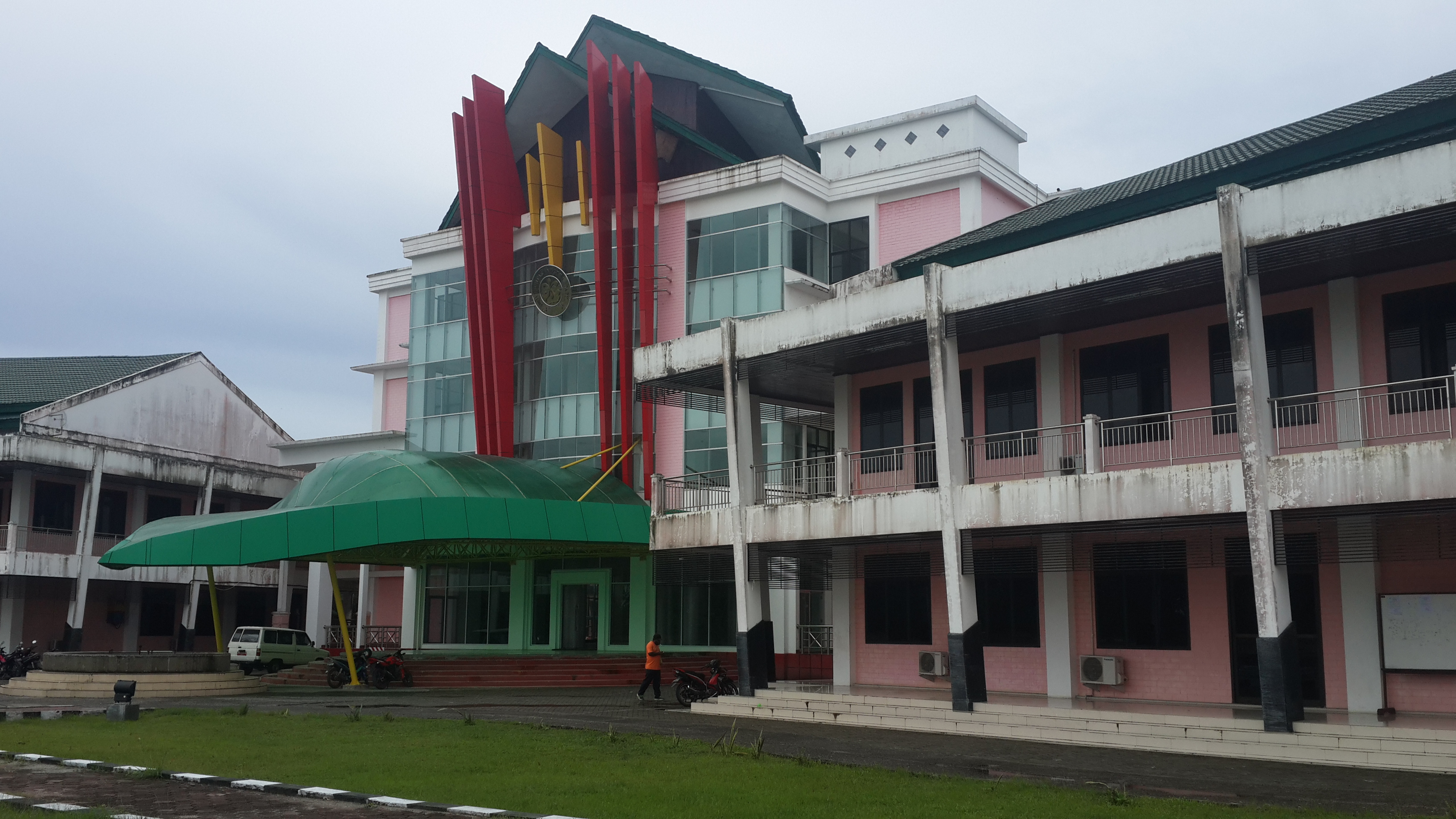 State University of Papua Rectorate Building